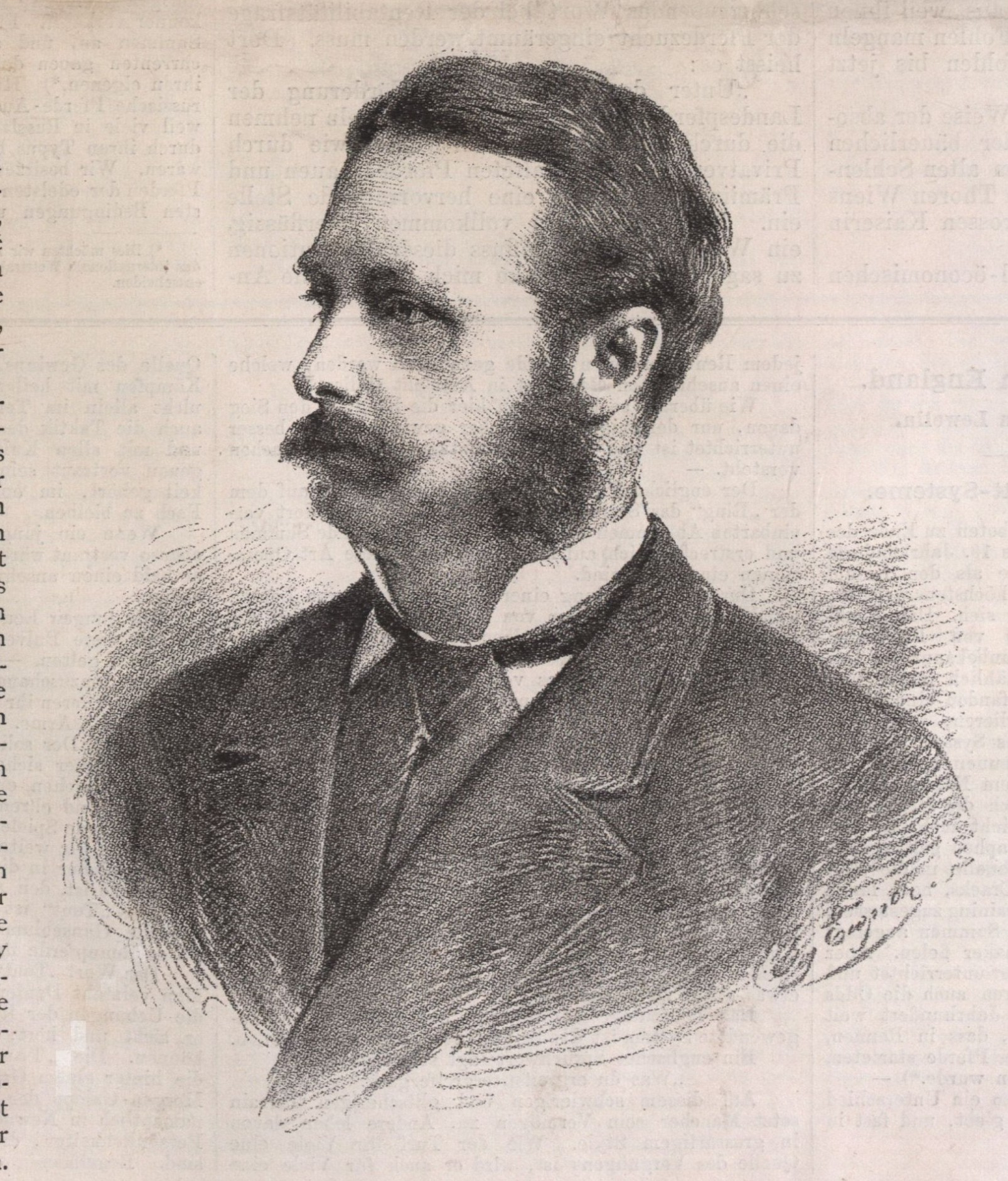 Portrait of Hieronymus Ferdinand Rudolf Graf von Mansfeld (1842-1881), Austrian nobleman and politician.